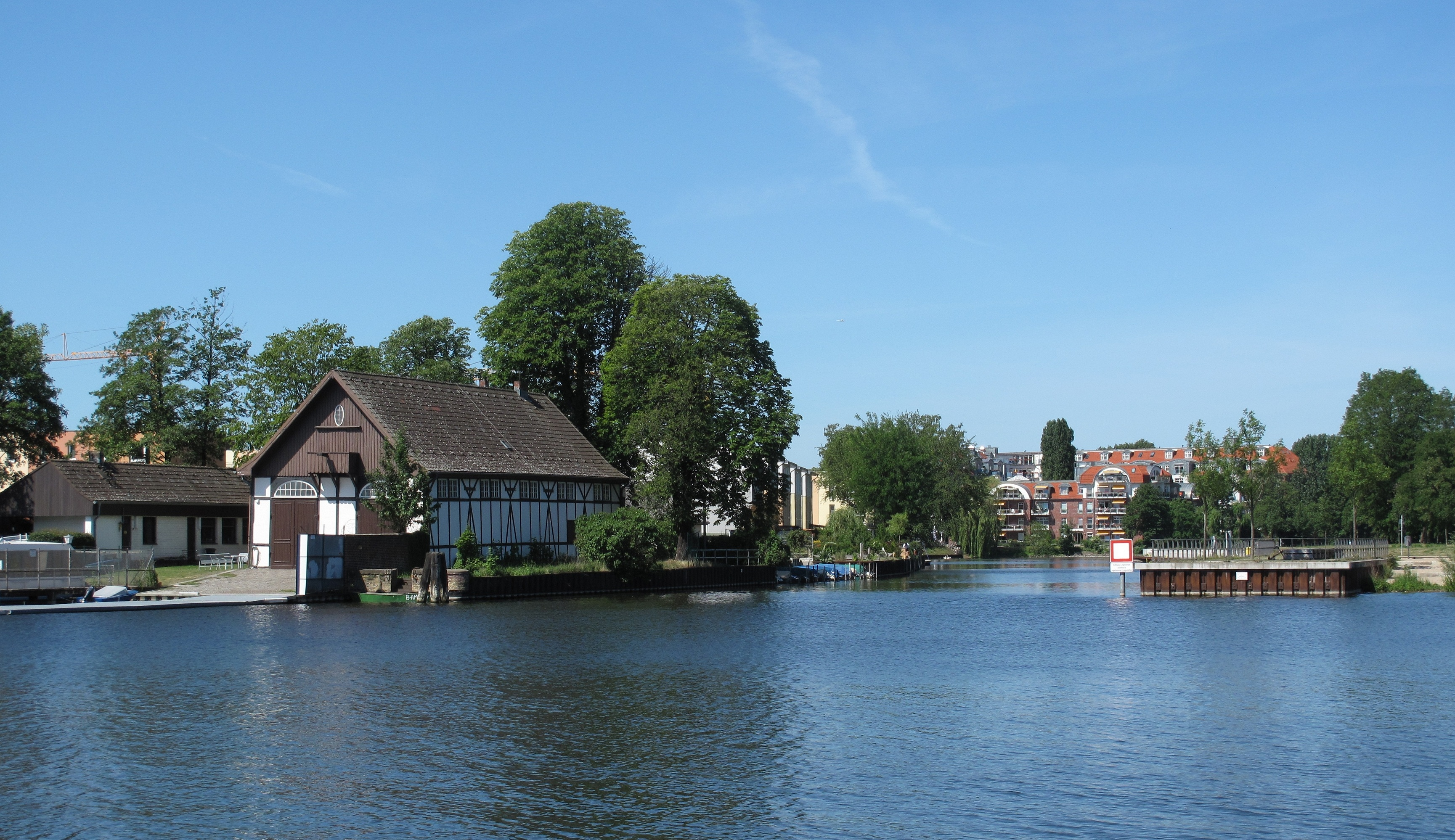 Mouth of the Nordhafen Spandau into the river Havel. On the left a historical boathouse, built in 1911. In the background at the canal old people's home Haus Havelblick. On the right the shoreline promenade and the green space Maselakepark. The Nordhafen Spandau (north harbour Spandau) is a branch canal of the Havel and a former inland harbour in Berlin, Borough Spandau, locality Hakenfelde.